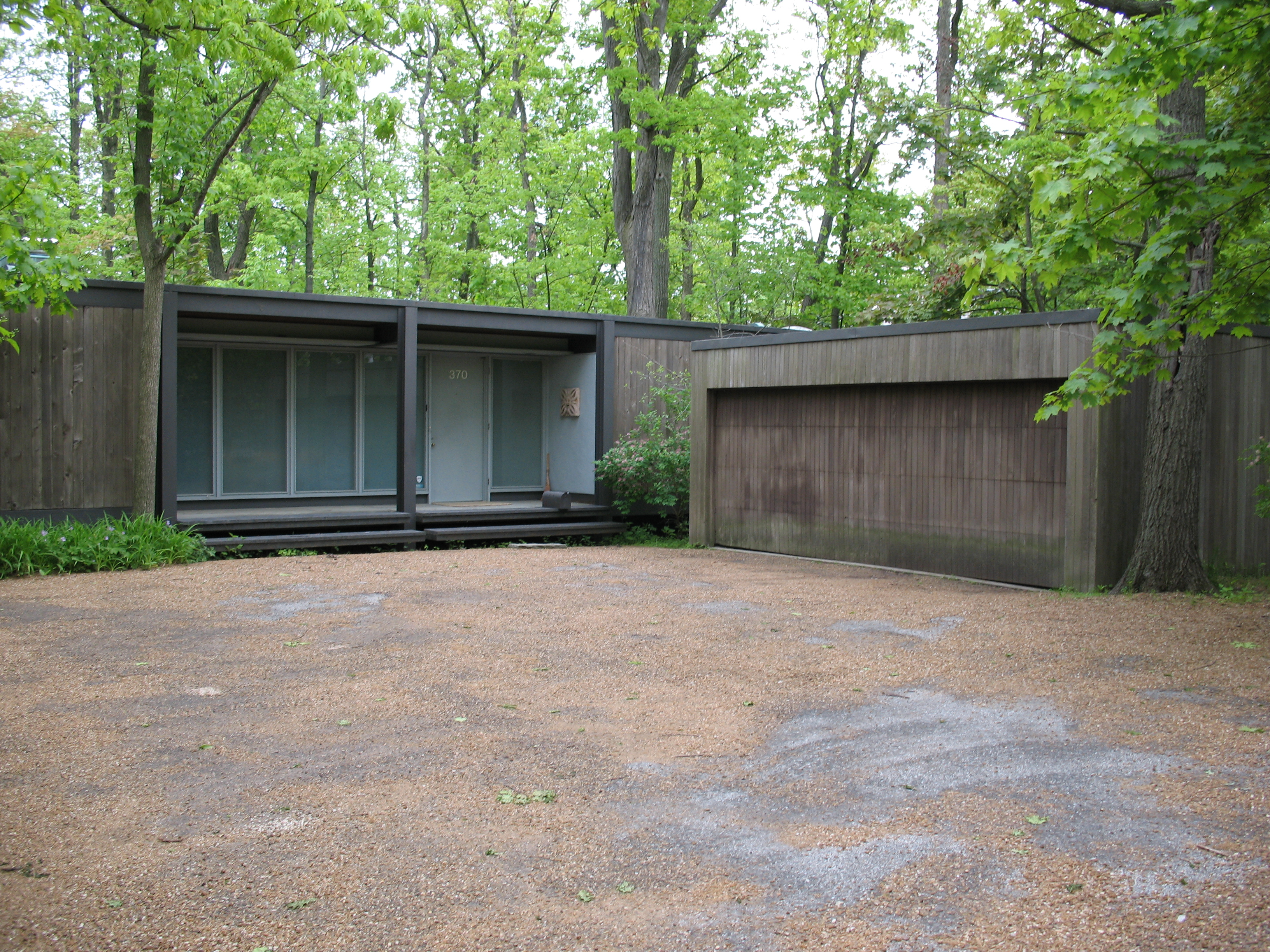 Cameron's House in Ferris Bueller's Day Off - 370 Beech Street, Highland Park, Illinois